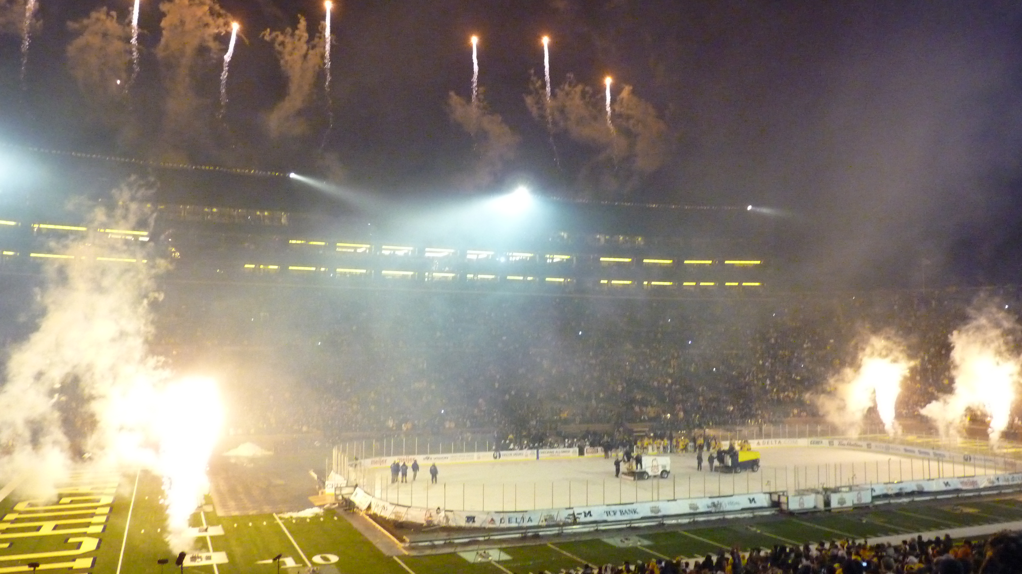 A photo I took at the Big Chill at The Big House during the postgame fireworks show